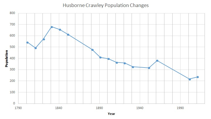 Total Population of Husborne Crawley Civil Parish, Bedfordshire, as reported by the Census of Population from 1801-2011.